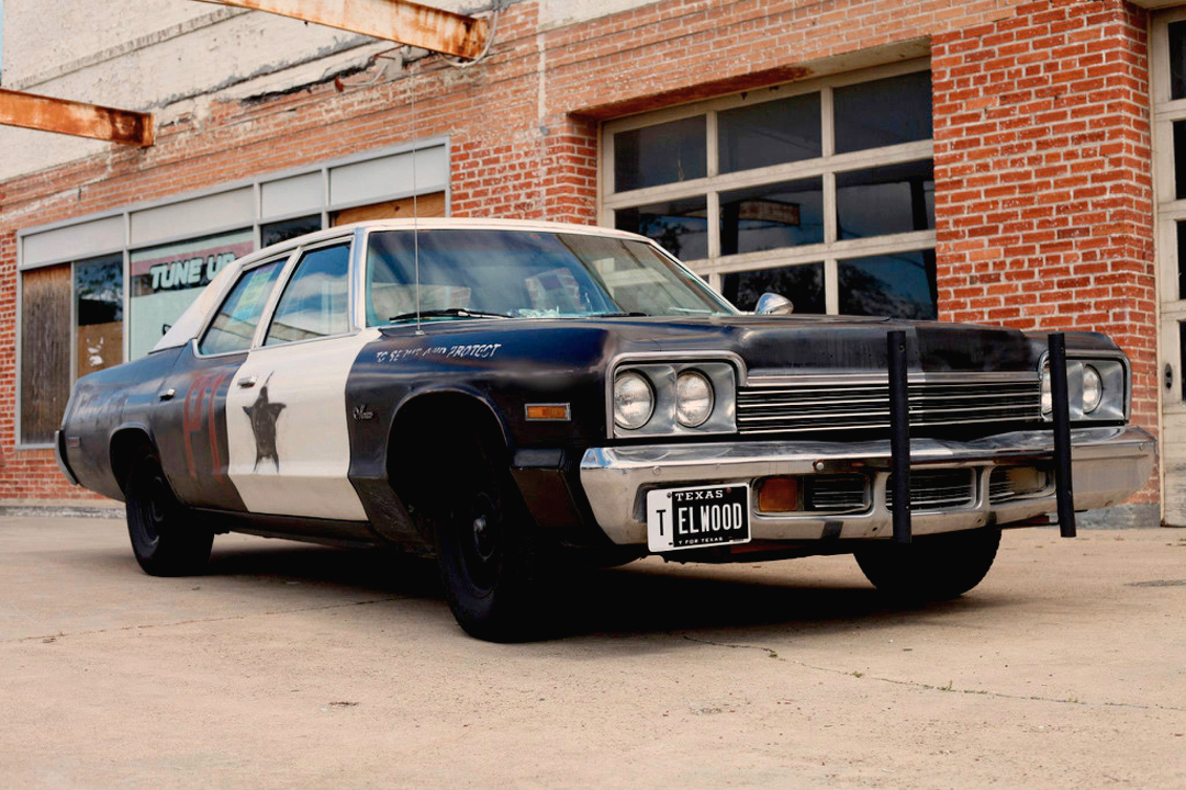 Parked in downtown McKinney TX